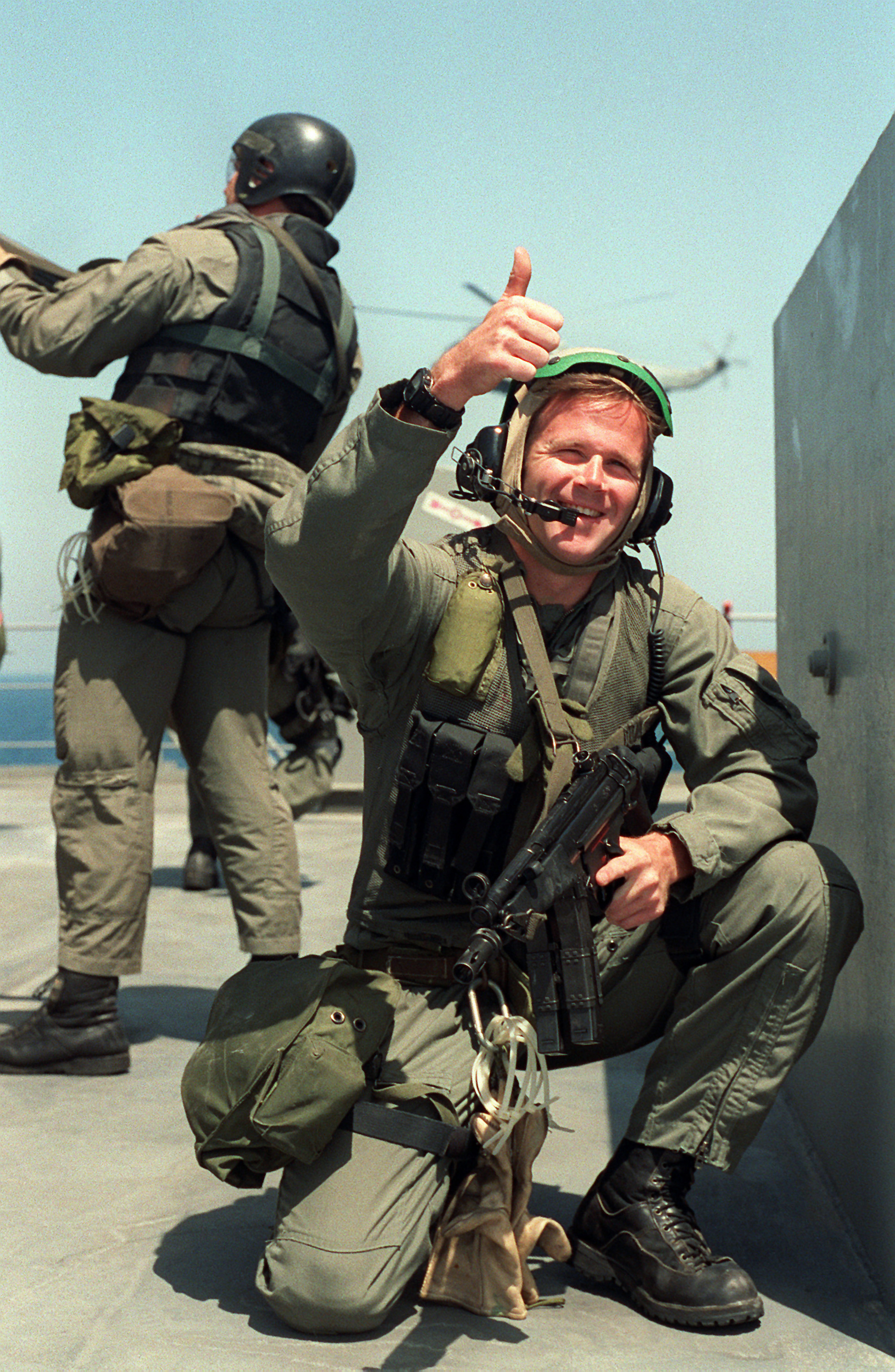 A member of Sea-Air-Land (SEAL) Team 8, armed with a 9mm MP-5A5E submachine gun, gives a thumbs-up at the successful completion of a training mission aboard the USNS JOSHUA HUMPHREYS (T-AO-188). SEAL Team 8 is providing boarding teams to assist the ships of the Maritime Interception Force in their enforcement of U.N. sanctions against Iraq during Operation Desert Storm.